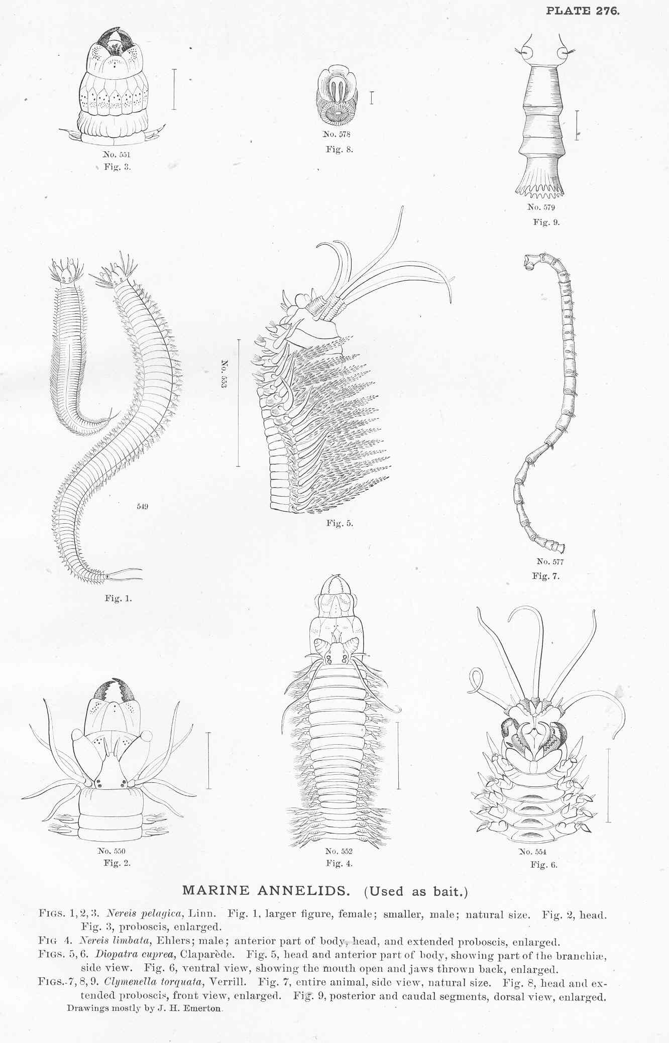 Marine Annelids (Used as bait) . Figs. 1,2,,3 Nereis pelagica, Linn . Fig. 4, Nereis limbata, Ehlers; male Fig.5,6, Diopatra cuprea, Claparede Figs. 7,8,9, Clymenella torquata, Verrill Subject: Annelida, Nereis, Onuphidae, Capitellida Tag: Invertebrates